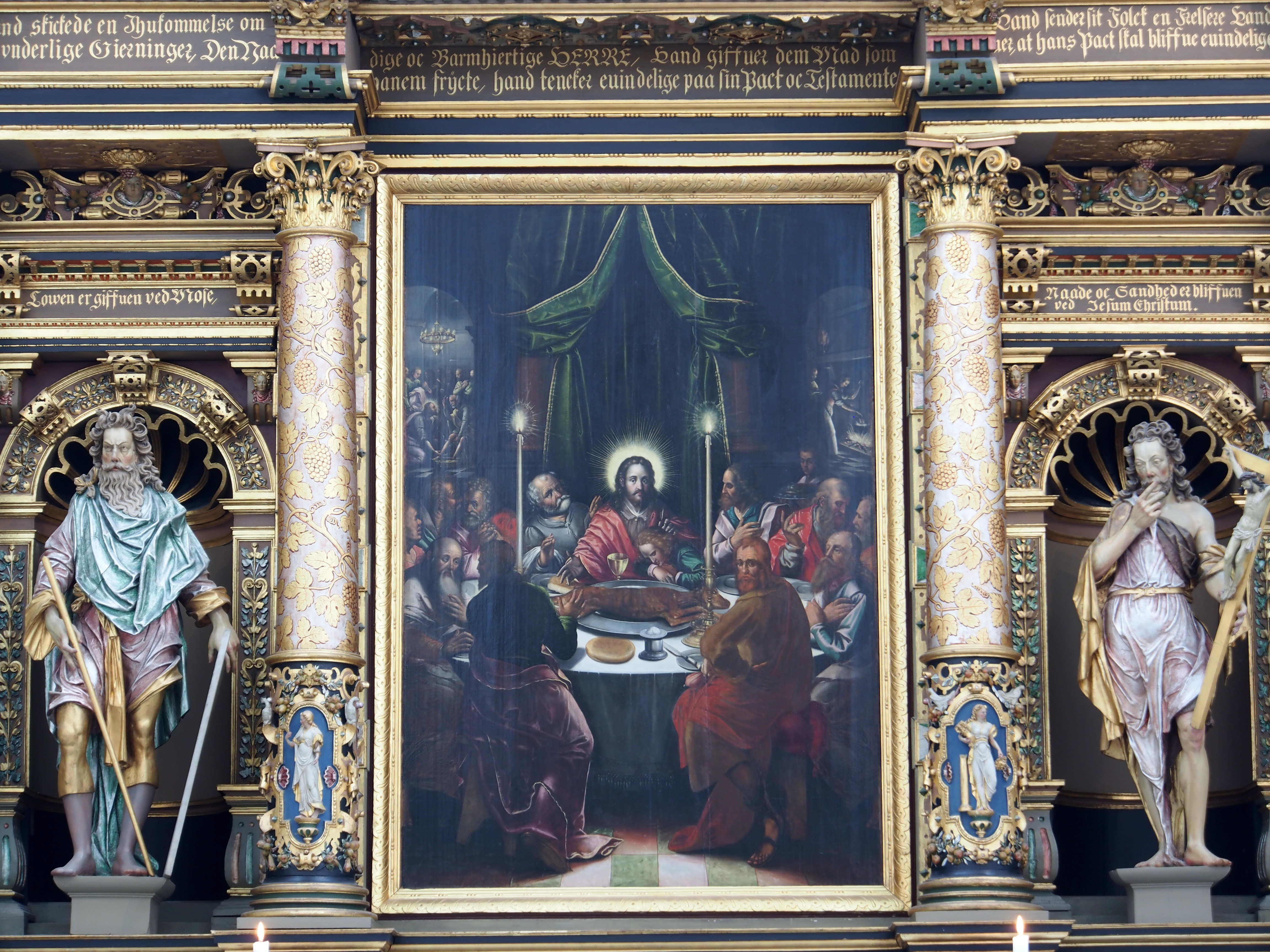 Interior of the Saint Peter church, Malmo, Sweden.